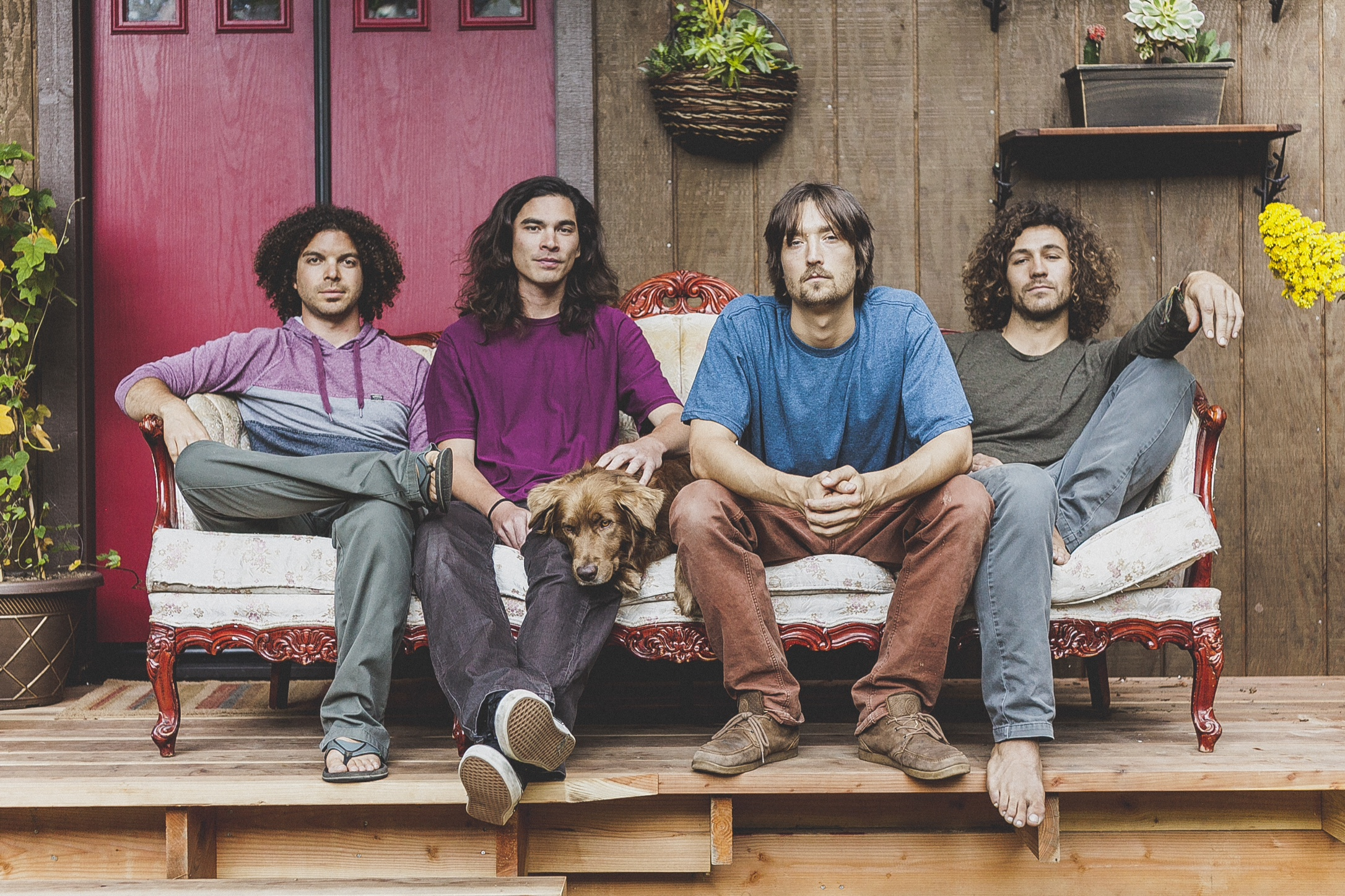 Photo by Josué Rivas